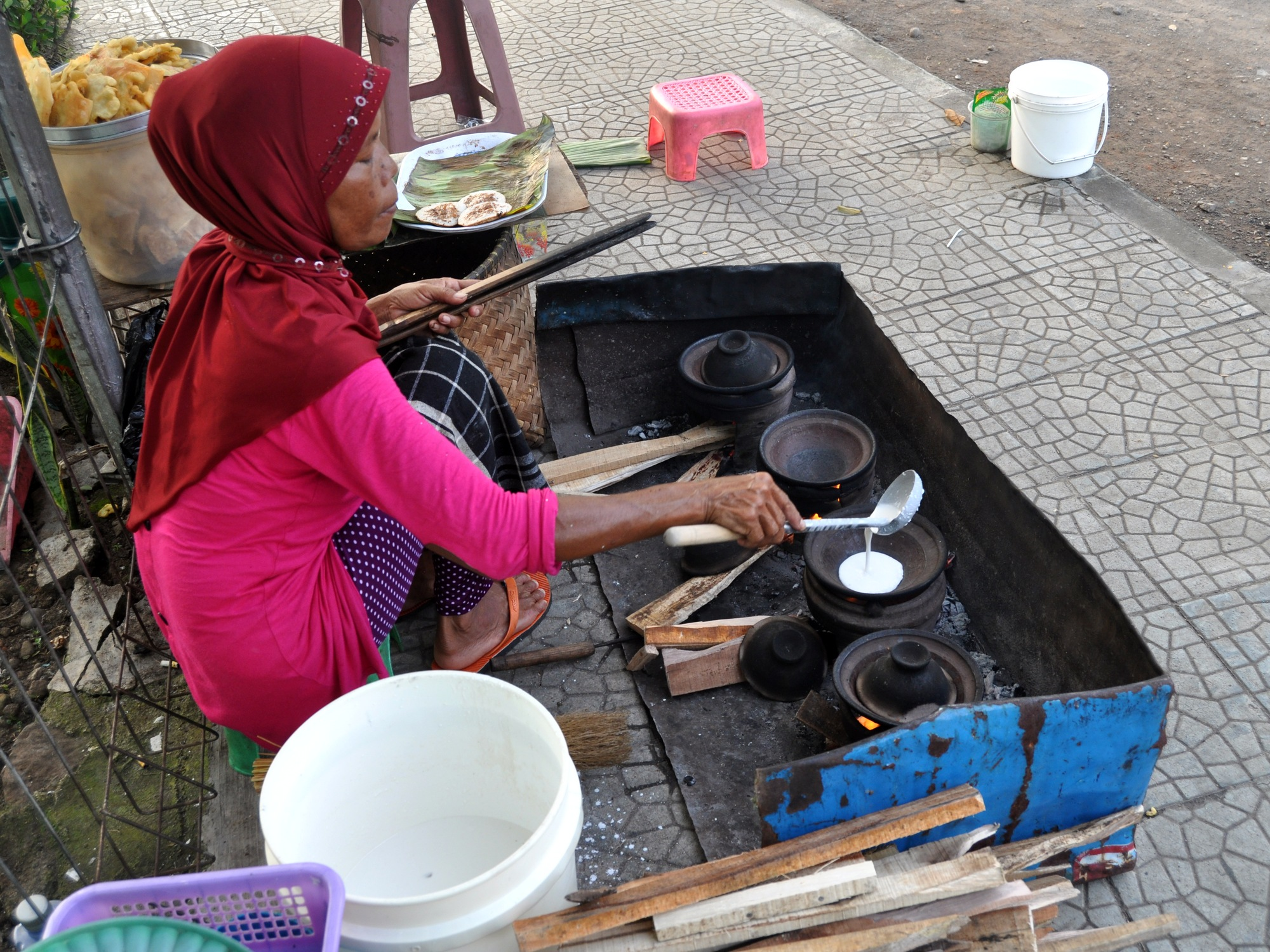 Cooking serabi, a traditional rice cake. Ciamis, West Java, Indonesia.